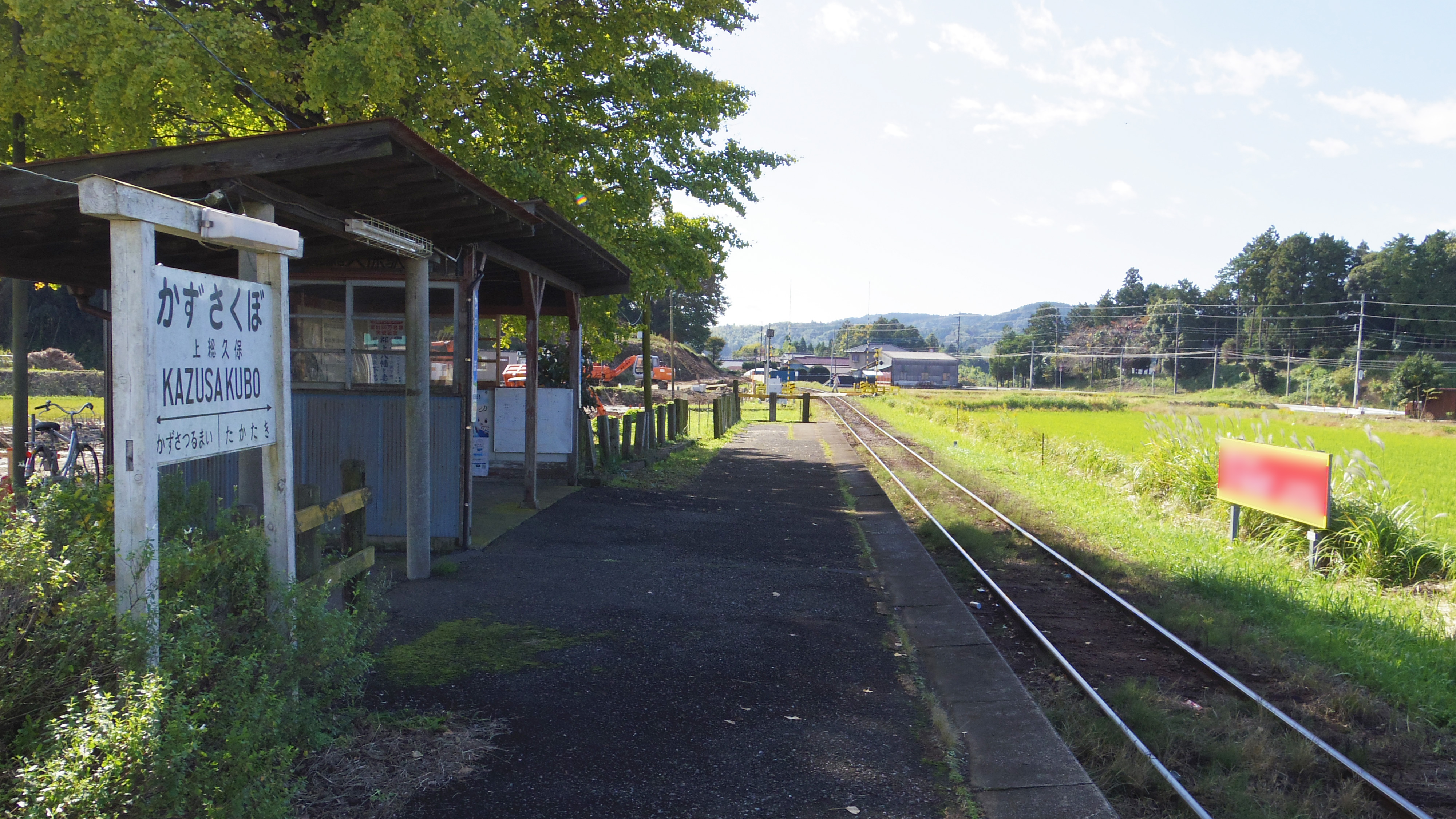 The platform at Kazusa-Kubo Station on the Kominato Line in Ichihara city, Chiba prefecture, Japan